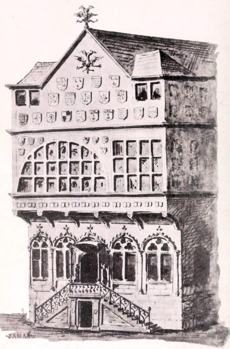 The townhall of Liège, Belgium, as it was between 1497 and 1691.